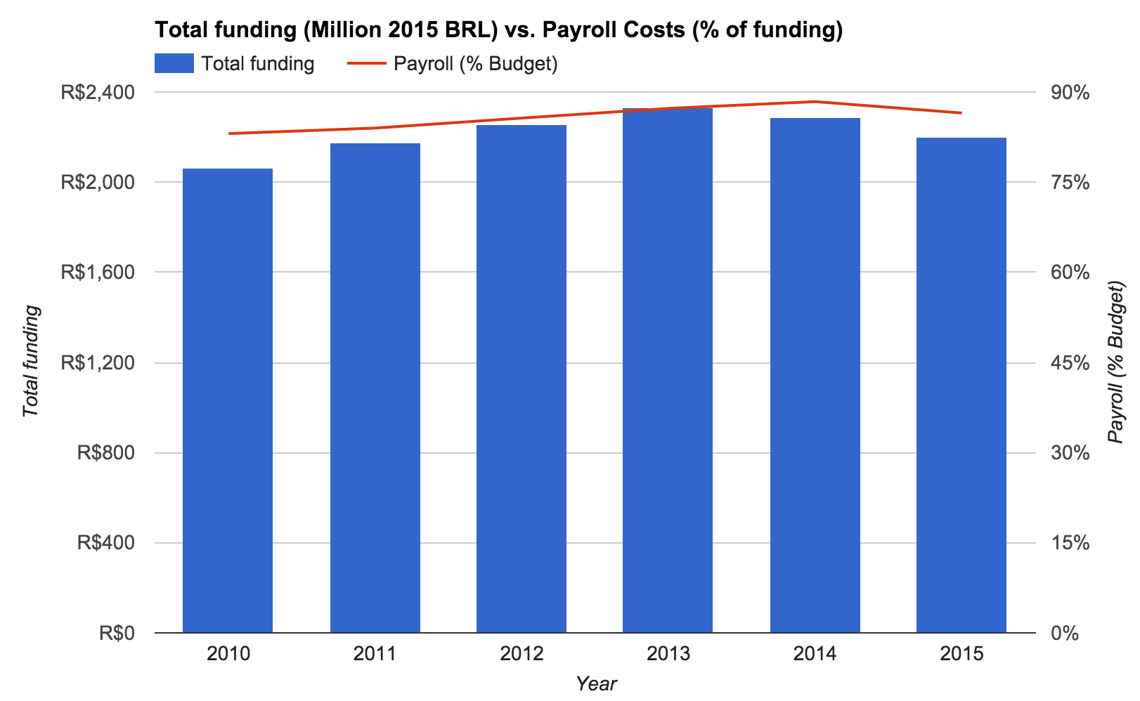 Chart showing Unicamp's funding in real terms and how much is destined to payroll